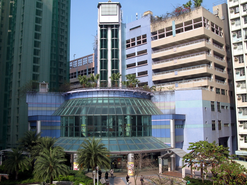 HK Chung Fu Shopping Centre in Tin Shui Wai